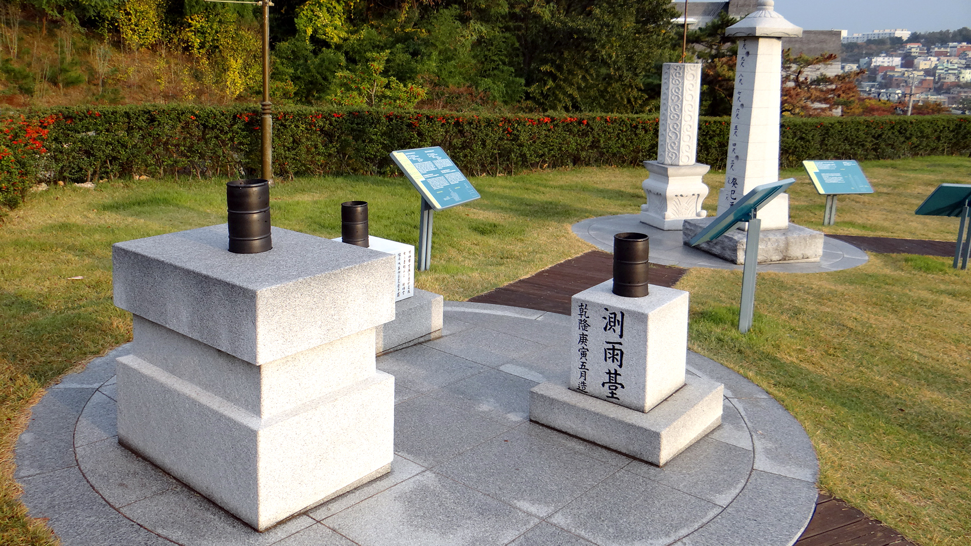 Jang Yeong-sil Science Garden in Busan commemorates the achievements of one of the greatest scientists of Joseon. The Rain Gauges are instruments to measure rain fall. The rain gauge is Treasure #842.